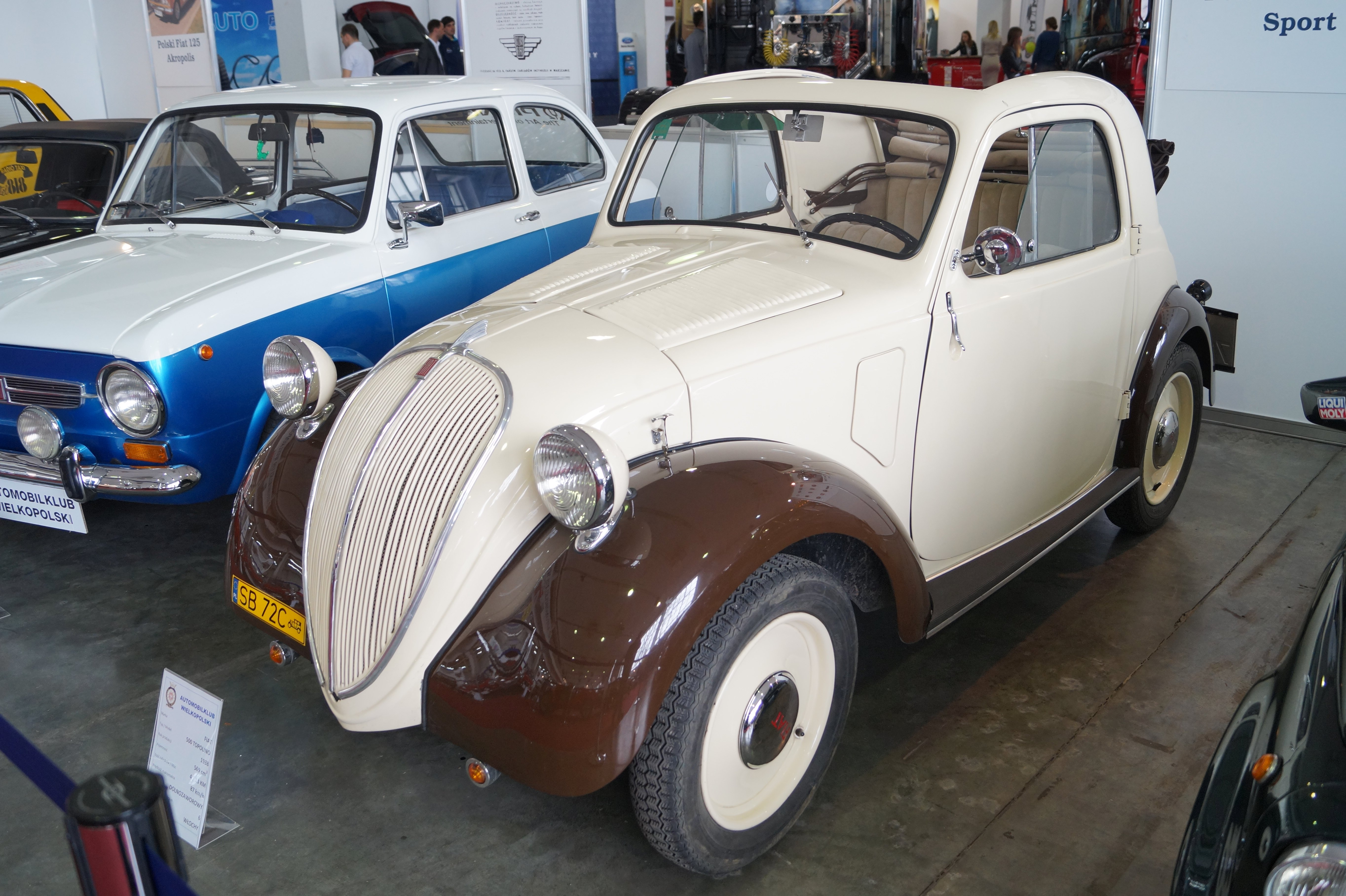 The making of this document was supported by Wikimedia Polska Association, within Wikigrant no. WG 2016-10. English | polski | +/− Fiat 500 Topolino na Motor Show Poznań 2016